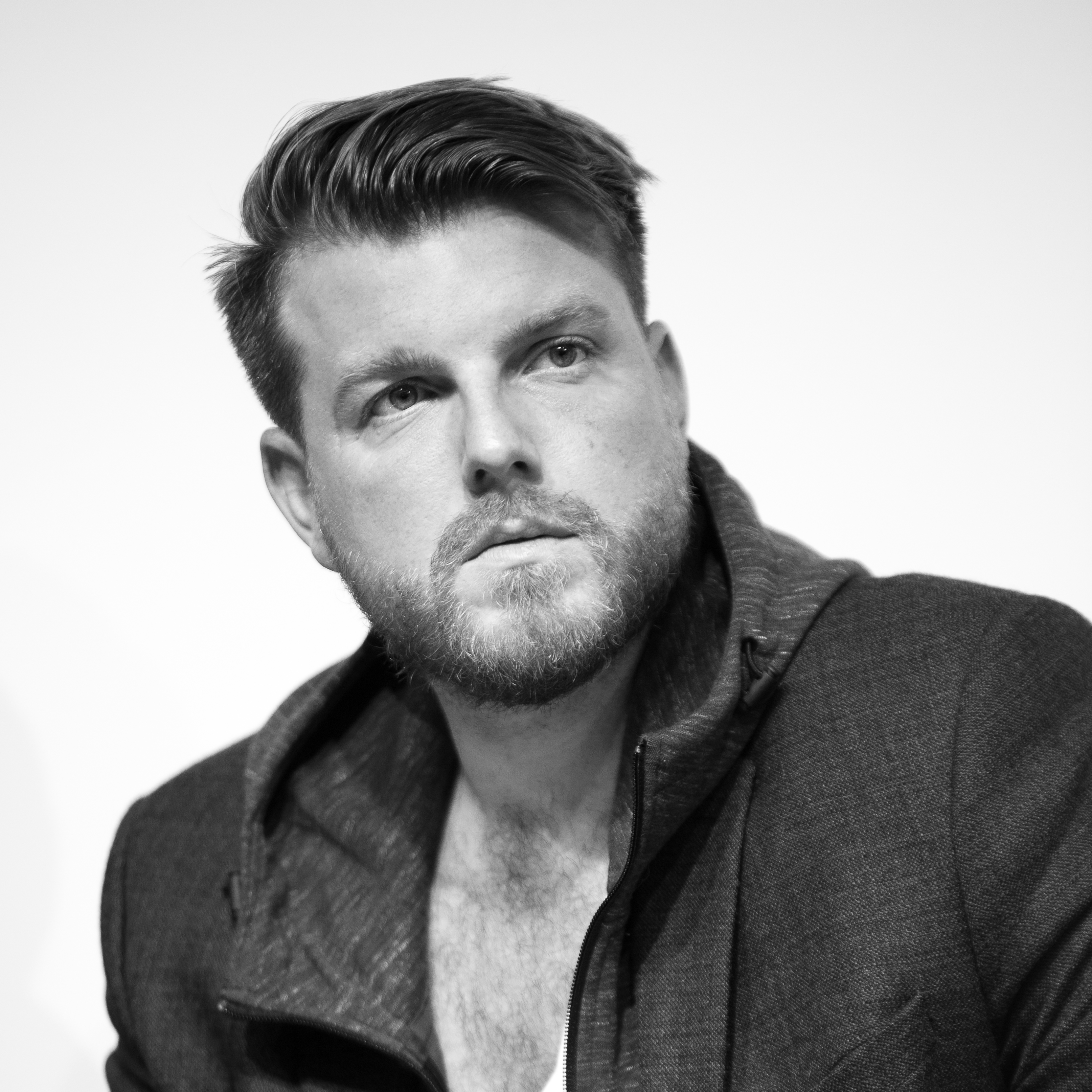 Lucas Vogelsang at the Frankfurt Book Fair 2017